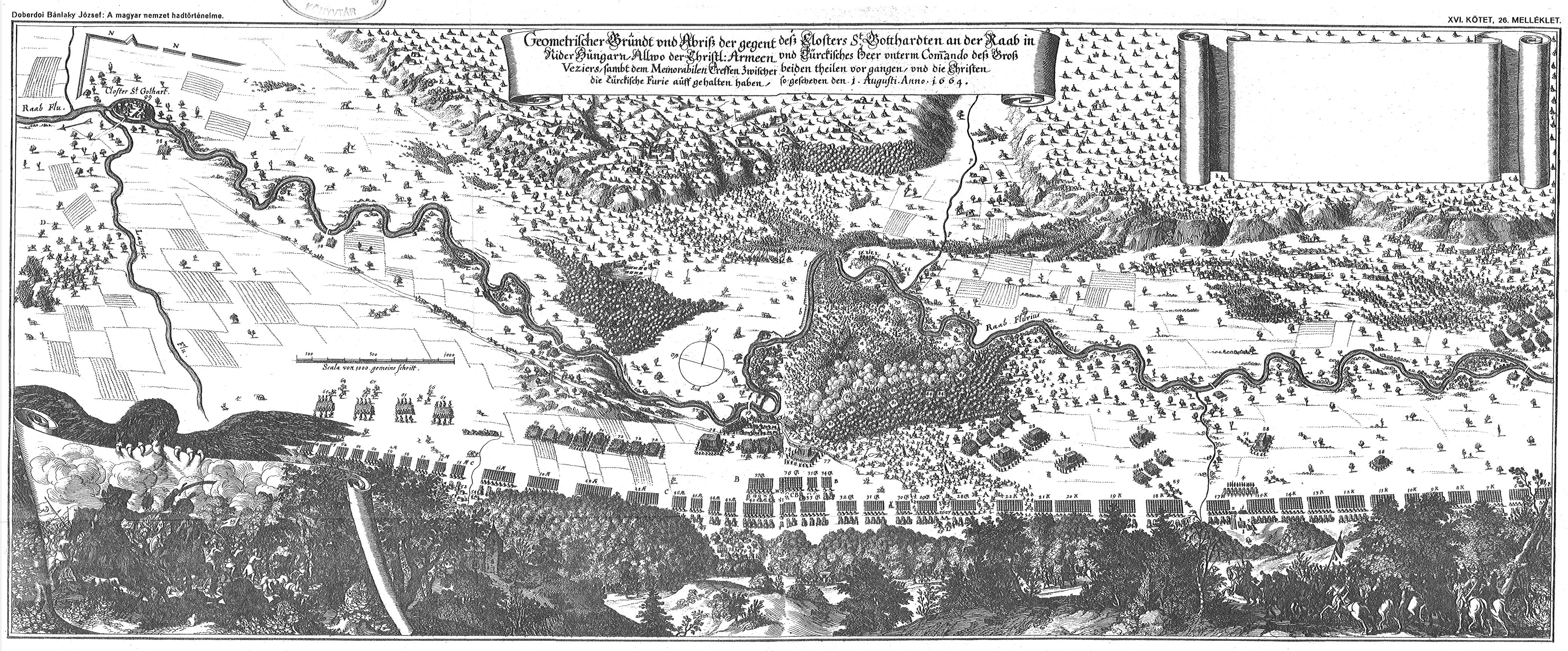 The Battle of Saint Gotthard (1664), German copper engraving